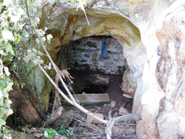 This is what is left of the original alum spring in New London, Virginia, that Peregrine Echols used for medicinal purposes and what led to the creation of the Bedford Alum Springs Hotel.